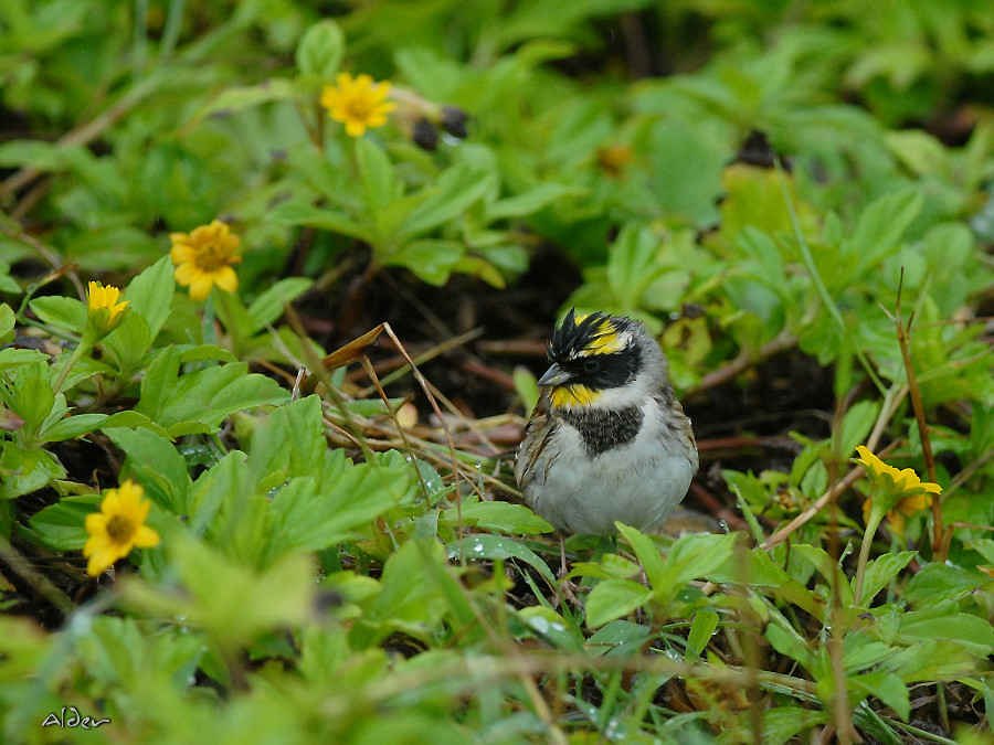 taken at Yehliu, Taipei County, Taiwan.